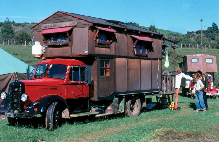 Image (photograph) taken at the 1981 Nambassa 5 day festival by Official Nambassa Photographer and uploaded by User: Mombas 04:20, 7 May 2007 (UTC) Nambassa dot com Terms of Use: 1/ All users of this image are required to attribute this work to "Nambassa Trust and Peter Terry" and the url: " " is to accompany all use. 2/ Attribution. You must attribute the work in the manner specified by the author or licensor. 3/ For any reuse or distribution, you must make clear to others the license terms of this work. Statement by Nambassa Trust and Peter Terry